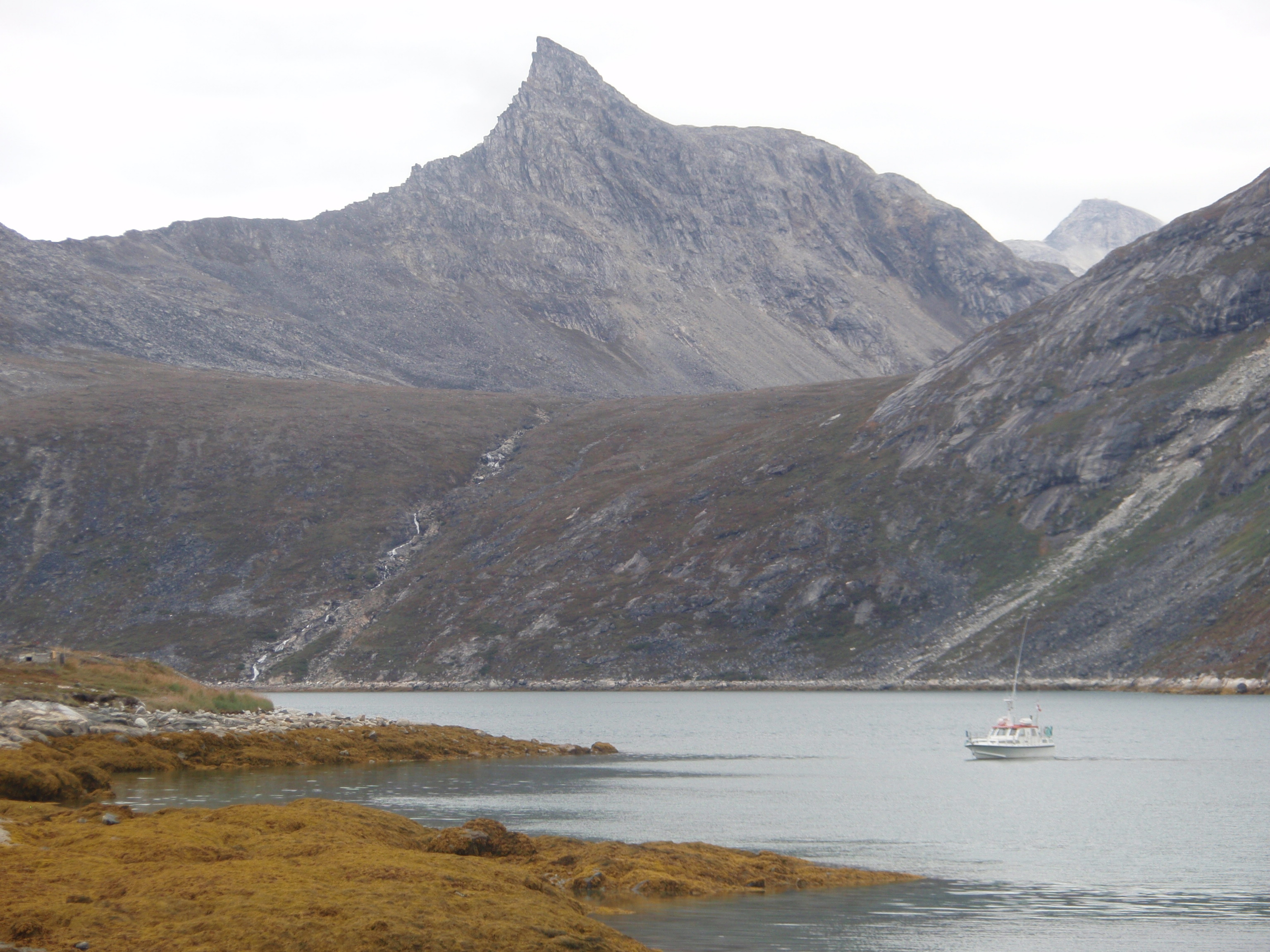 Nuuk Fiord 2010, Greenland